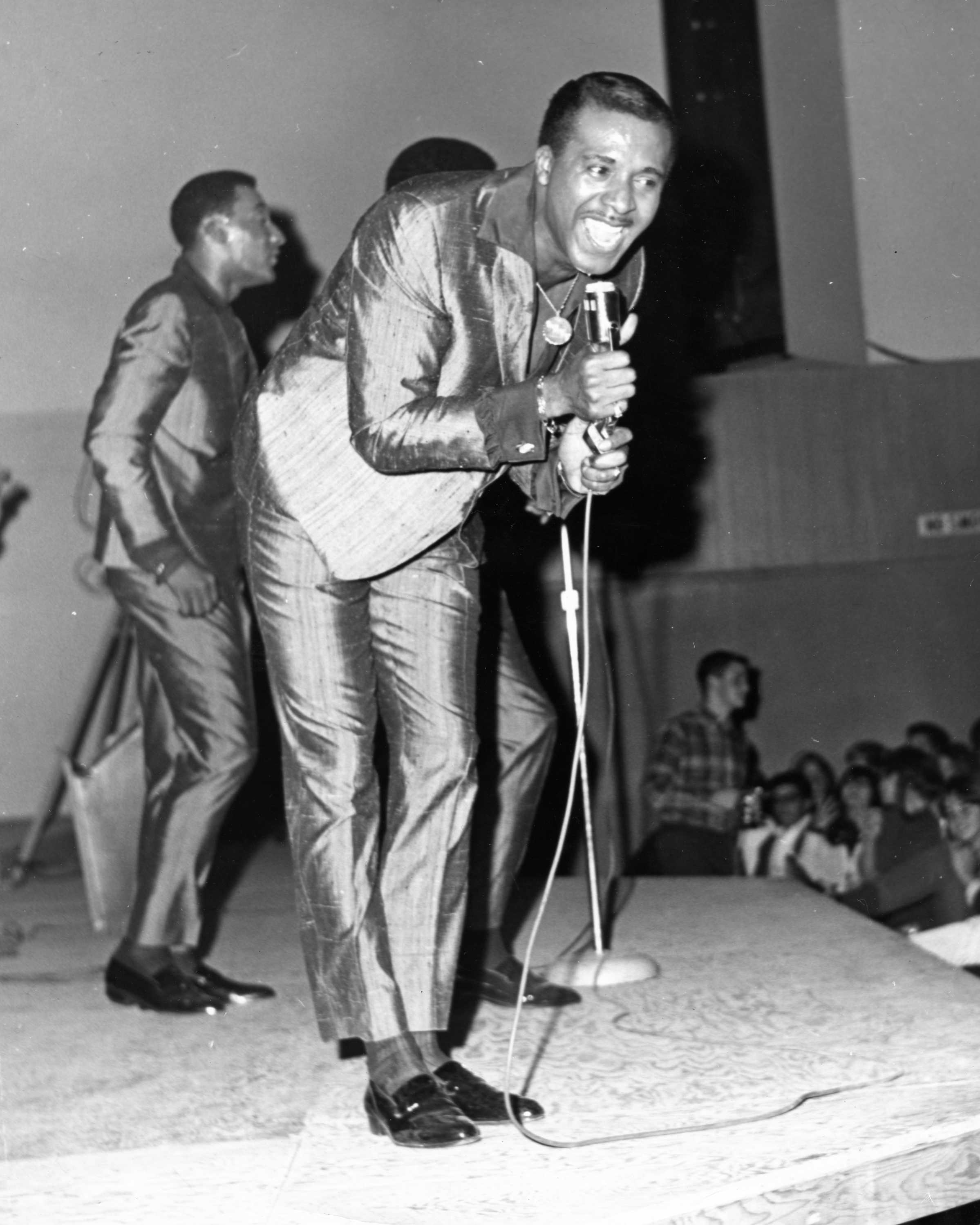 Levi Stubbs, lead singer of the Four Tops, performing at New Rochelle High School, New Rochelle, New York.